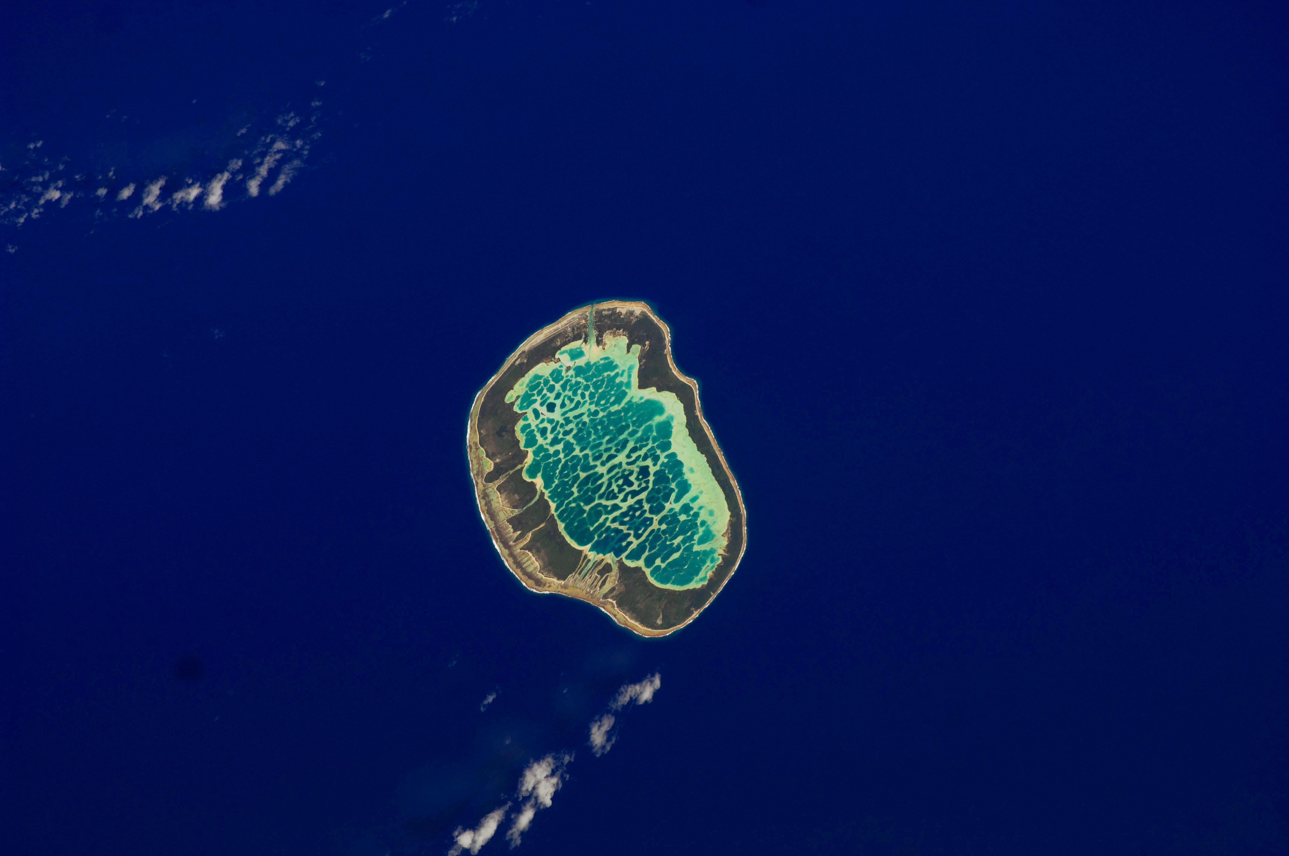 This astronaut photograph features Mataiva Atoll, the westernmost atoll of the Tuamotu chain. Mataiva Atoll is notable in that its central lagoon includes a network of ridges (white, image centre) and small basins formed from eroded coral reefs. Mataiva means “nine eyes” in Tuamotuan, an allusion to nine narrow channels on the south-central portion of the island. The atoll is sparsely populated, with only a single village—Pahua—located on either side of the only pass providing constant connection between the shallow (light blue) water of the lagoon and the deeper (dark blue) adjacent Pacific Ocean. Much of the 10-kilometre-long atoll is covered with forest (greenish brown). Vanilla and copra (dried coconut) are major exports from the atoll, but tourism is becoming a larger part of the economy.